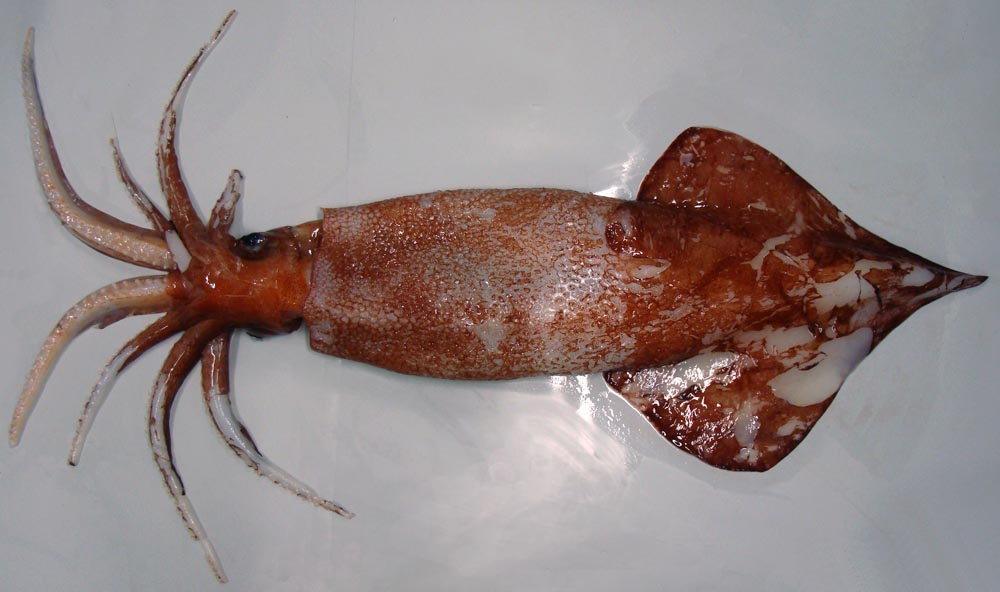 Onykia robsoni mature female (885 mm ML, 11100 g weight) from S.W. Chatham Rise near New Zealand at 44°21'S, 175°32'E (caught in bottom trawl at 685-700 m depth)